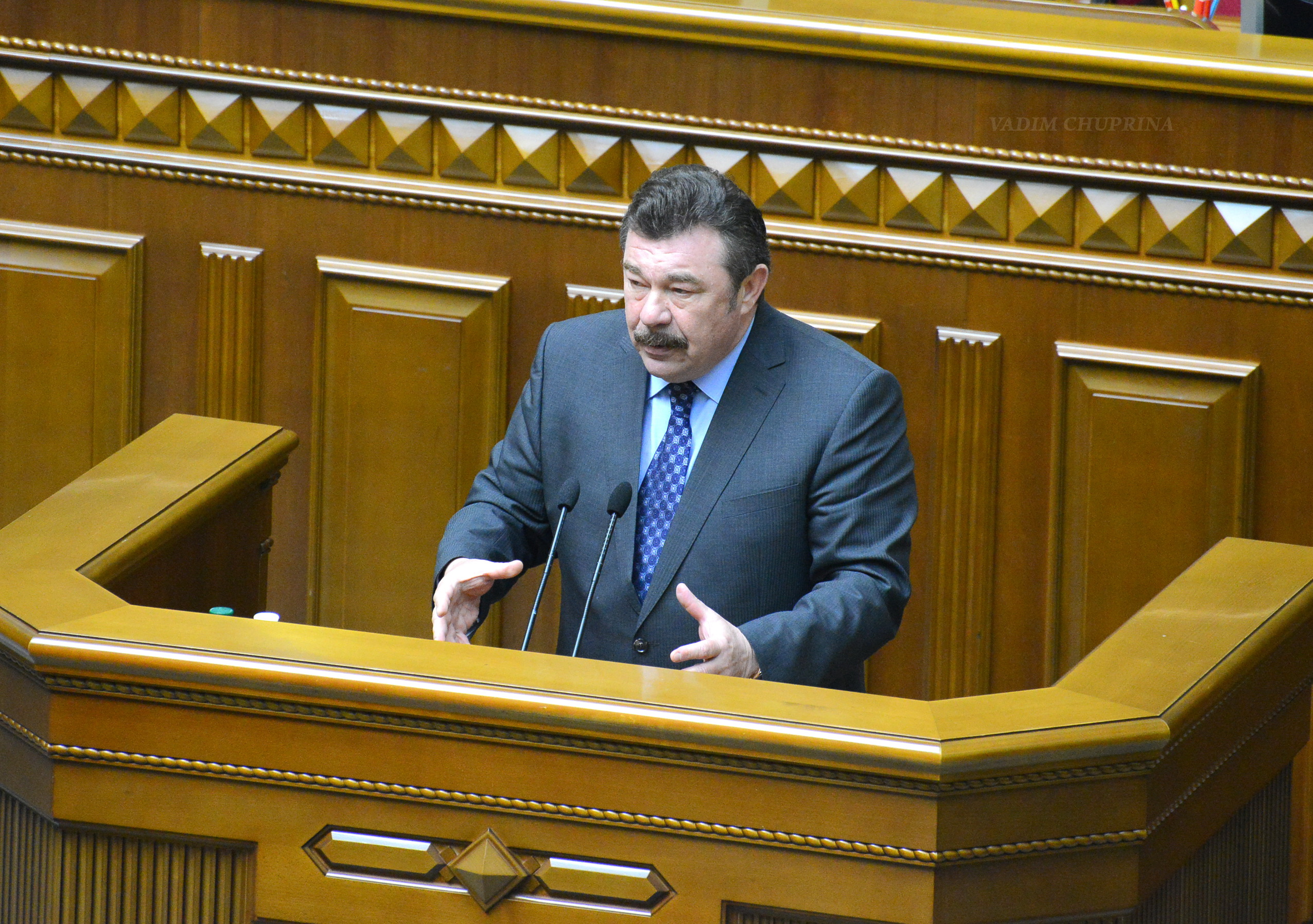 Ukrainian politicians VADIM CHUPRINA